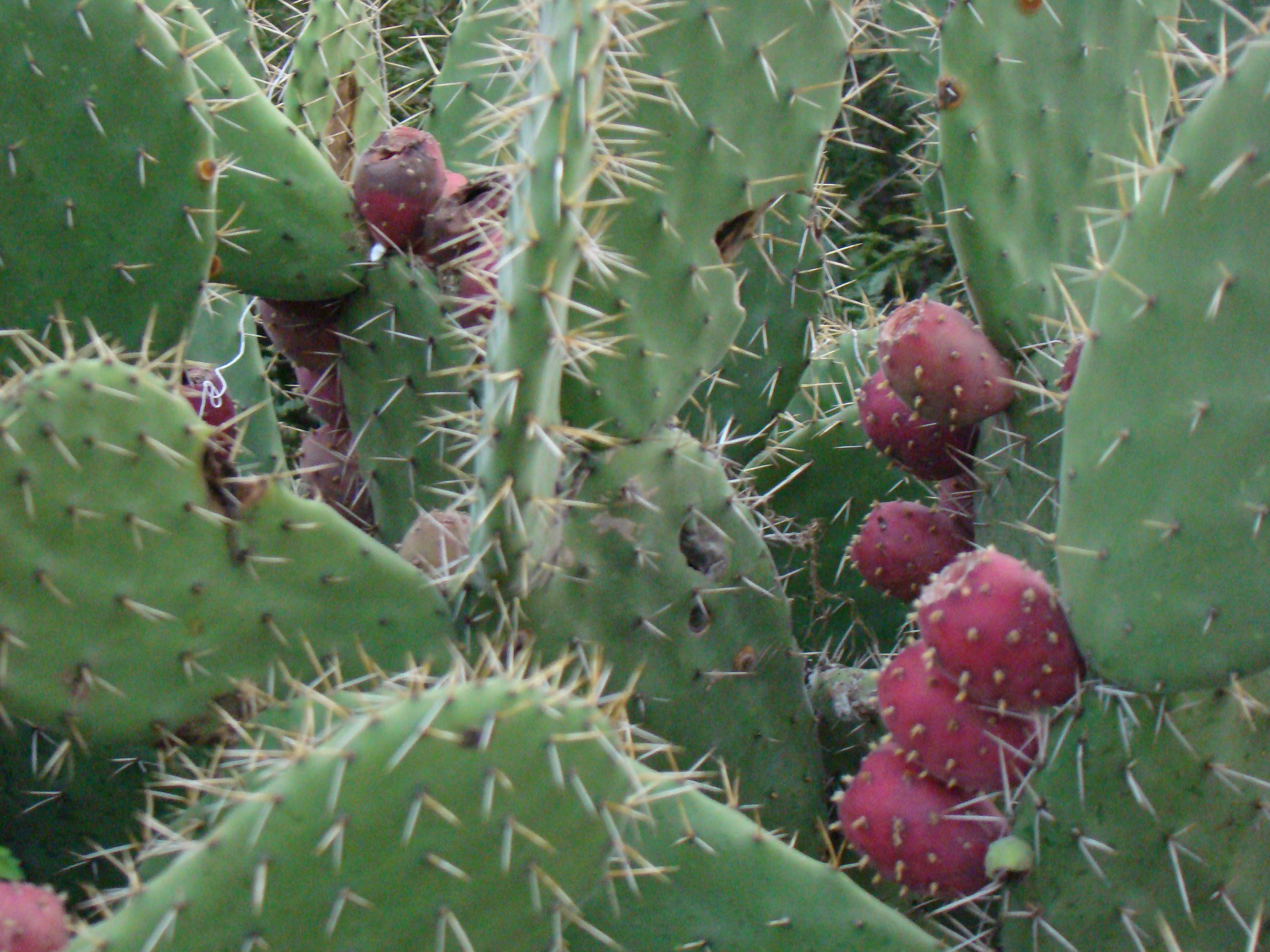 Nopal, or prickly pear, with red fruits. Queretaro, Mexico